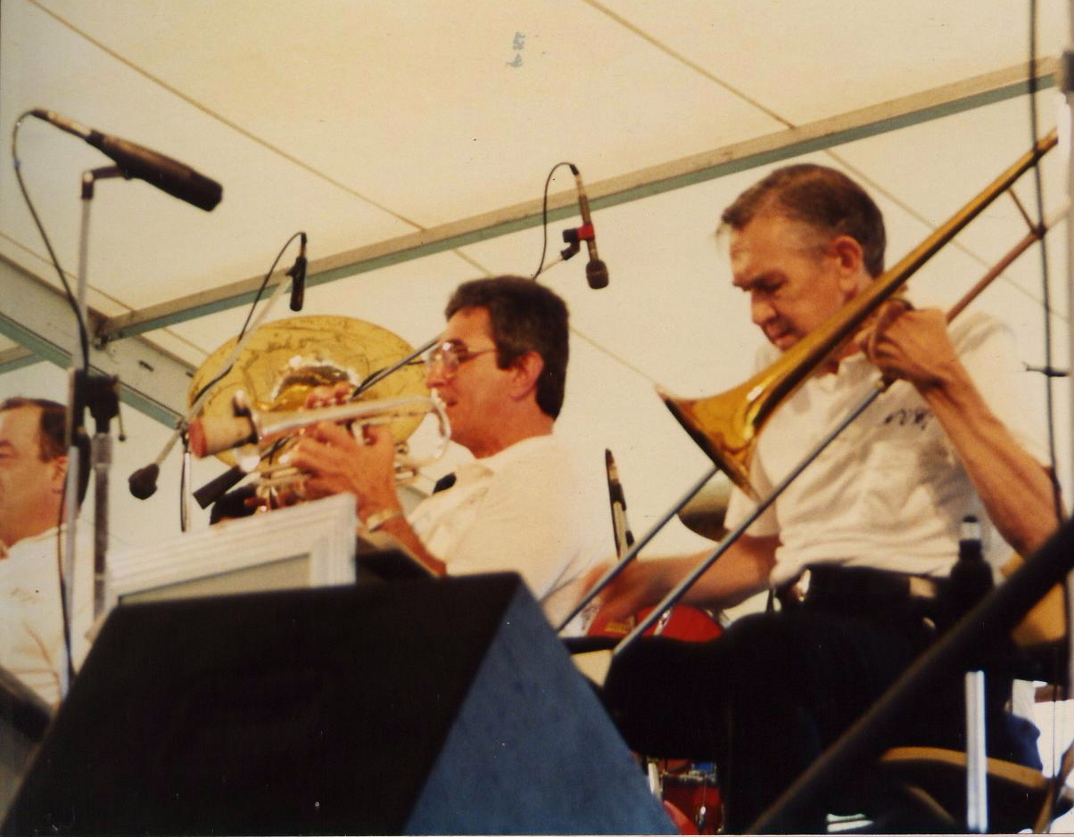 New Orleans Jazz & Heritage Festival. Eddie Bayard plays muted trumpet; trombonist Tom Ebert.